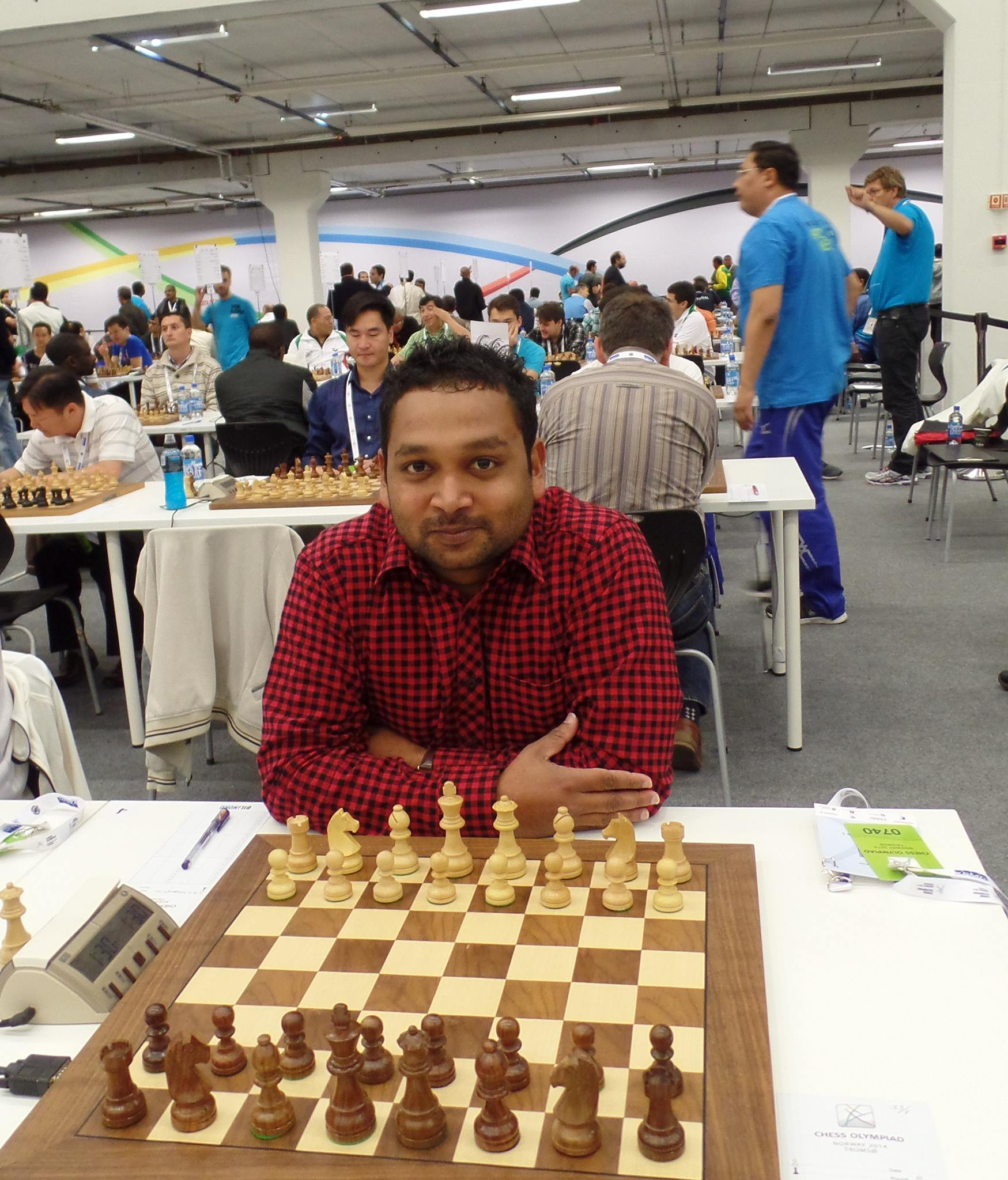 Rajeendra Kalugampitiya,Sri Lankan Chess Champion 2016 at Olympiad 2014 in Tromso Norway